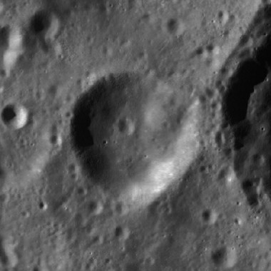 Tyndall crater, on the far side of the moon. LRO Wide Angle Camera mosaic.